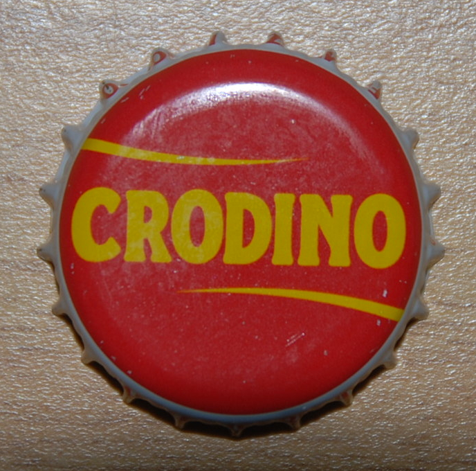 Crown cork Crodino